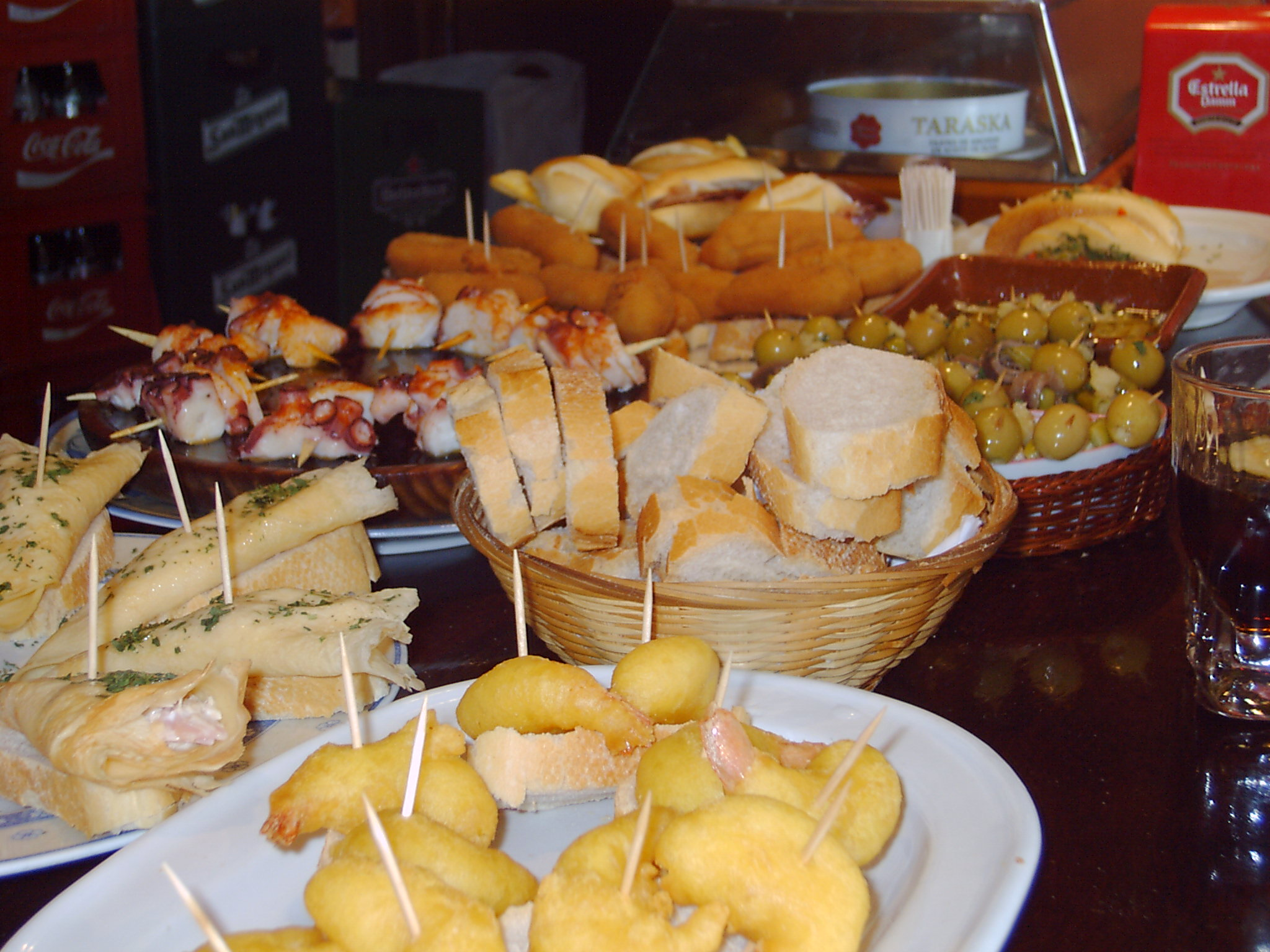 pinchos of bermeo´s old port